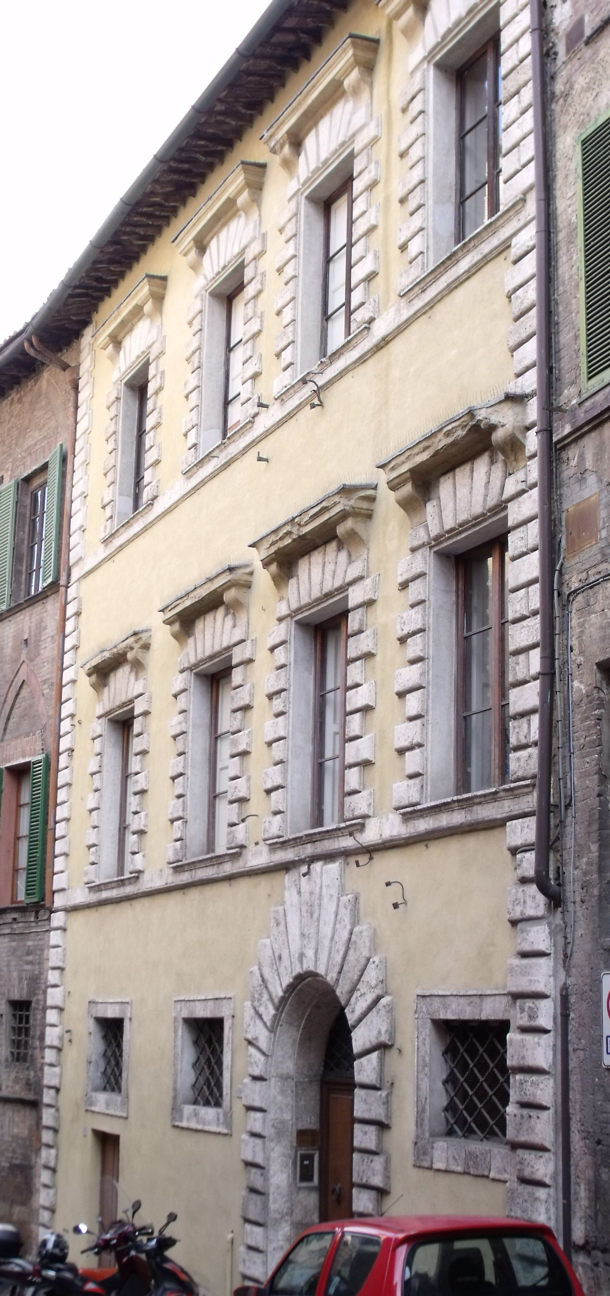 The Palazzo Pannilini in Casato di Sopra in Siena, Tuscany, Italy